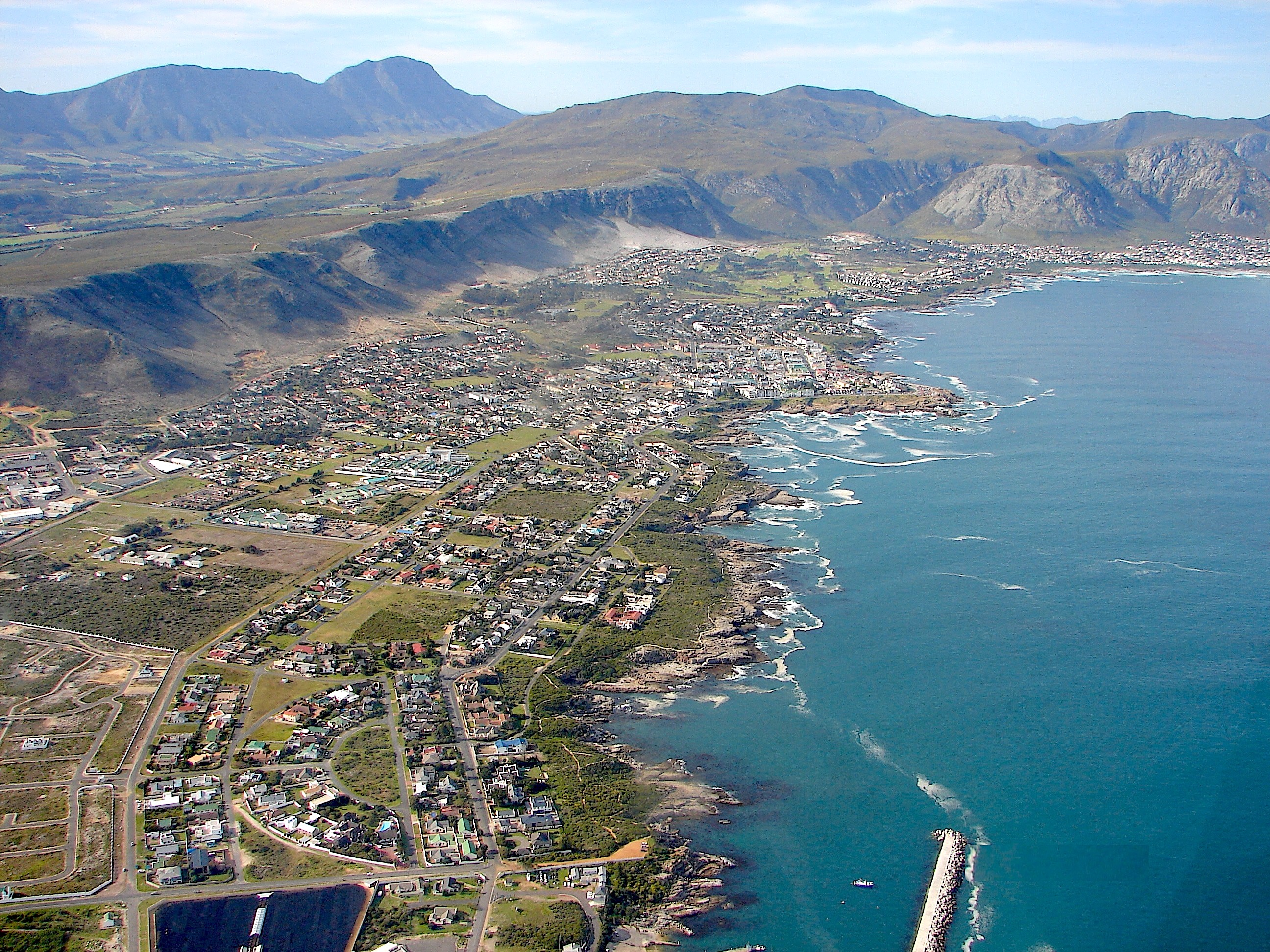 Coastline at Hermanus, Walker Bay' '(South Africa)